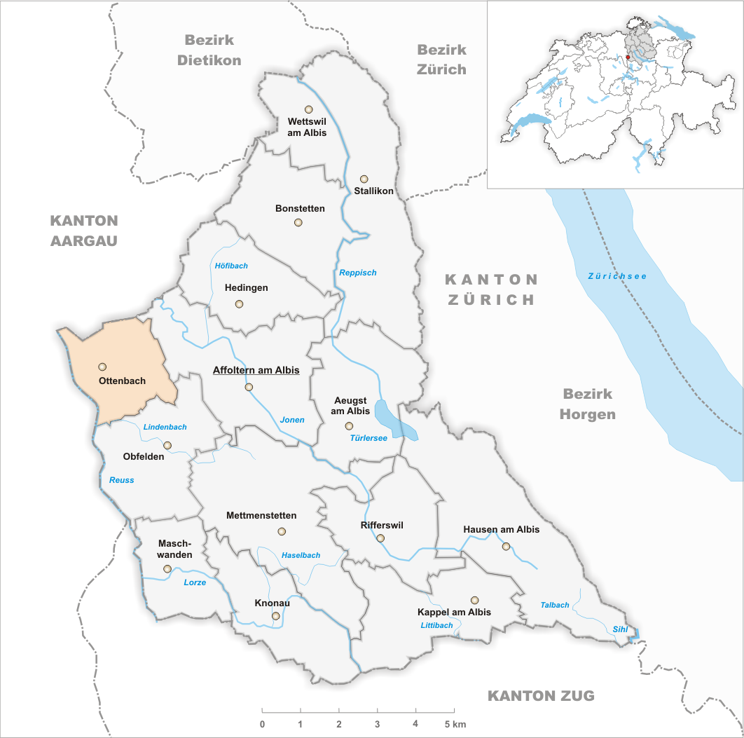 Municipality Ottenbach